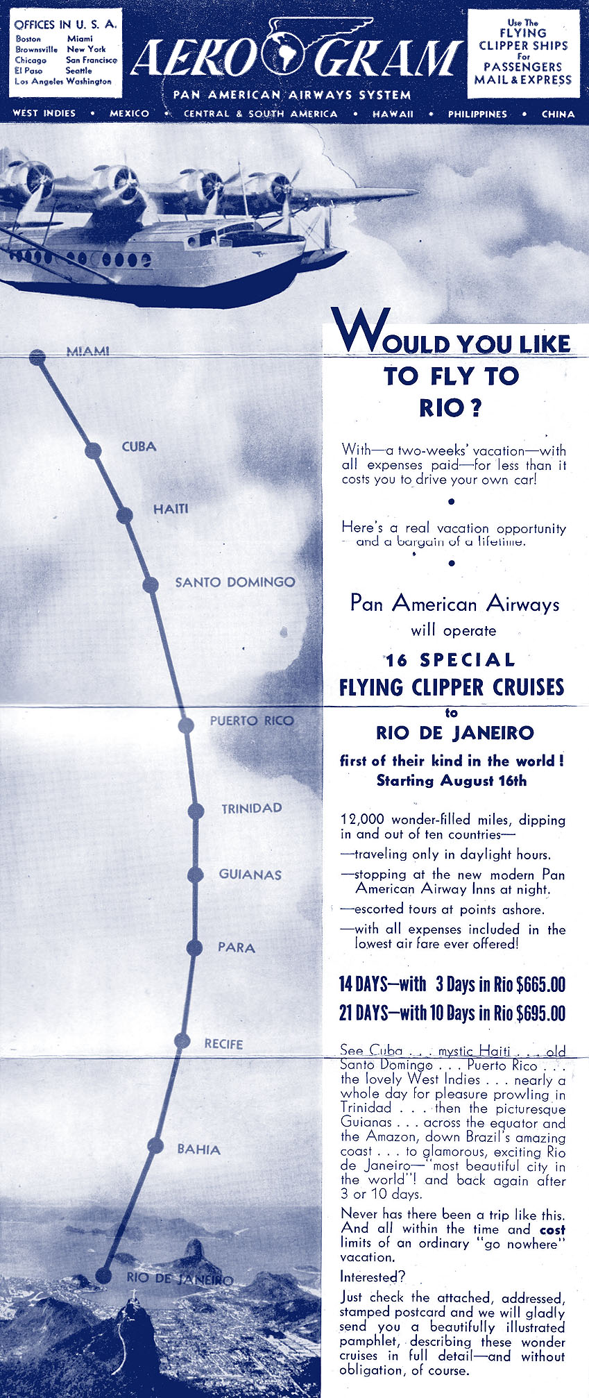 1941 Pan American Airways advertising mailer for 16 "Flying Clipper Cruises" from Miami to Rio de Janeiro via Sikorsky S-42 flying boats. The destinations included are as follows: Miami Cuba Haiti Santo Domingo Puerto Rico Trinidad Guianas Pará Recife Bahia Rio De Janeiro